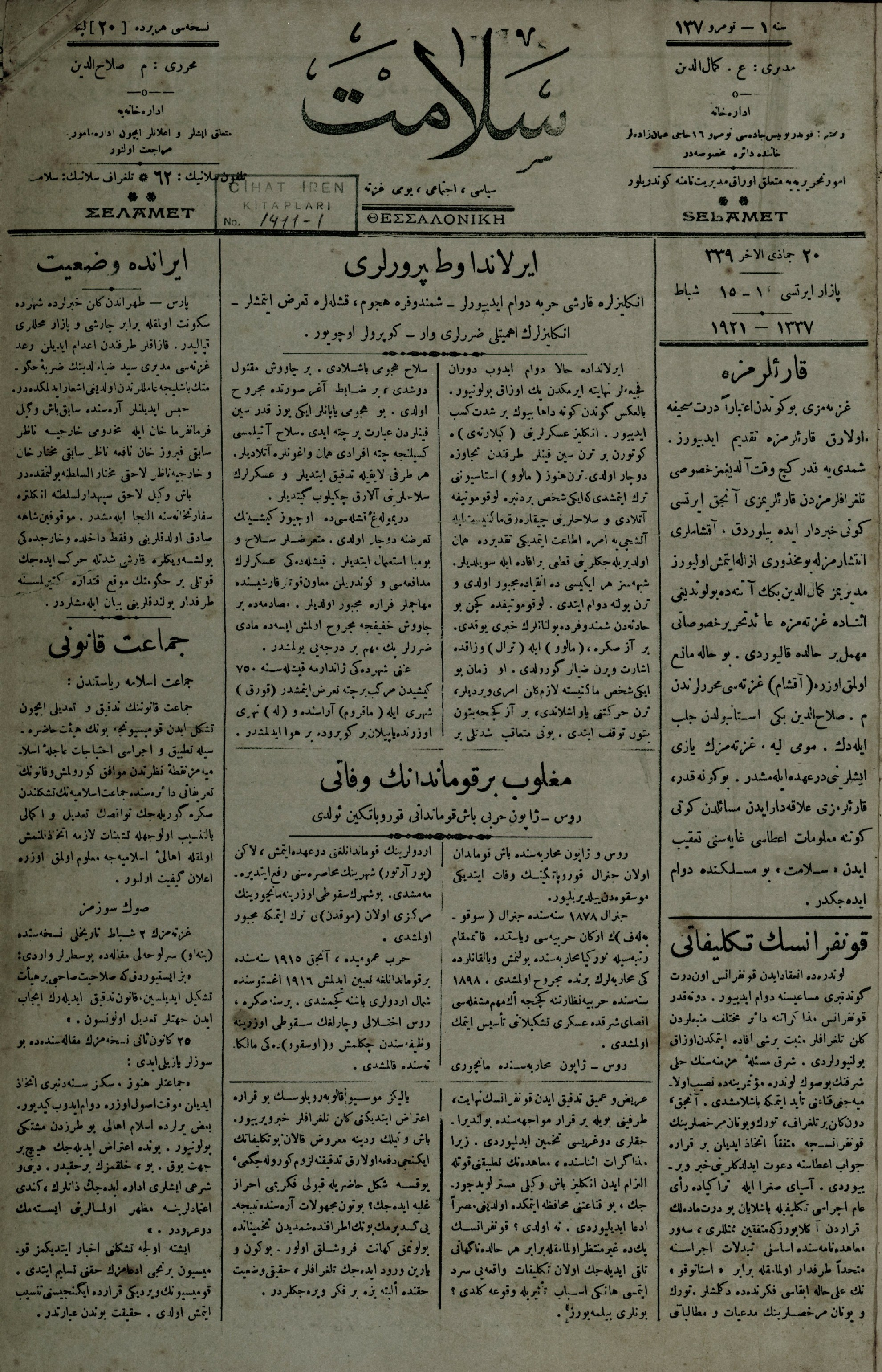 Selamet 1921-03-01